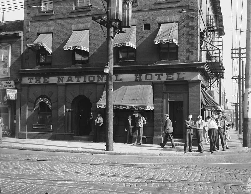 The National Hotel in Toronto, Ontario, Canada, located near King Street East and Sherbourne Street.